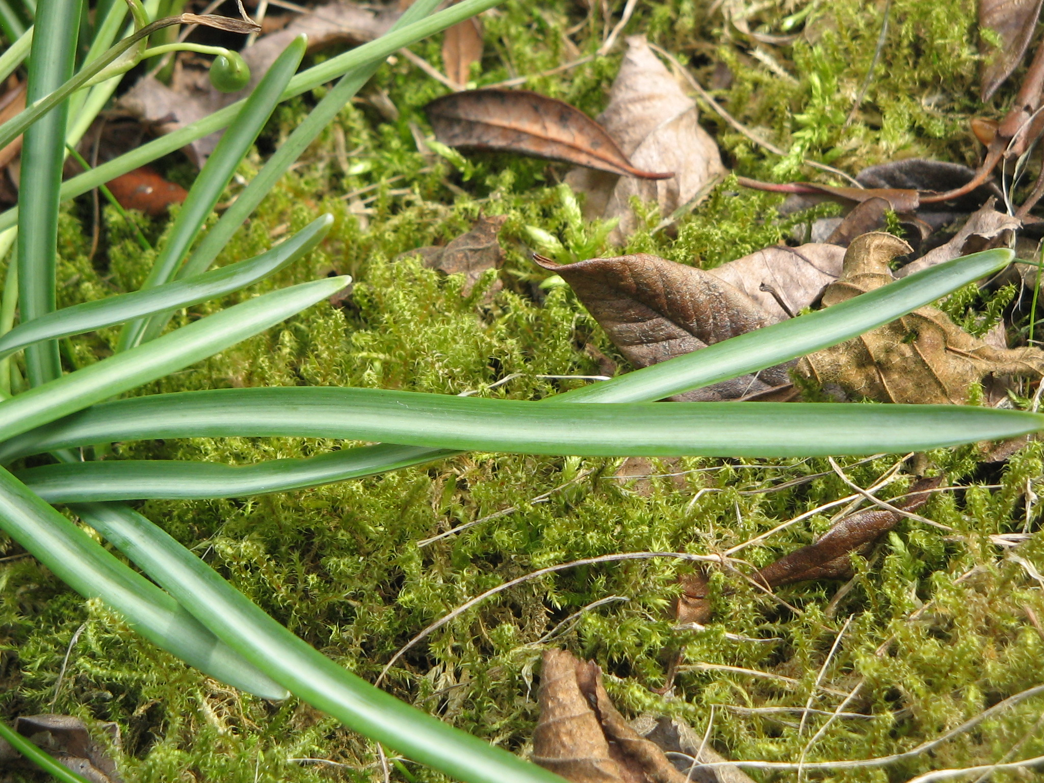 Galanthus reginae-olgae - close-up leaves